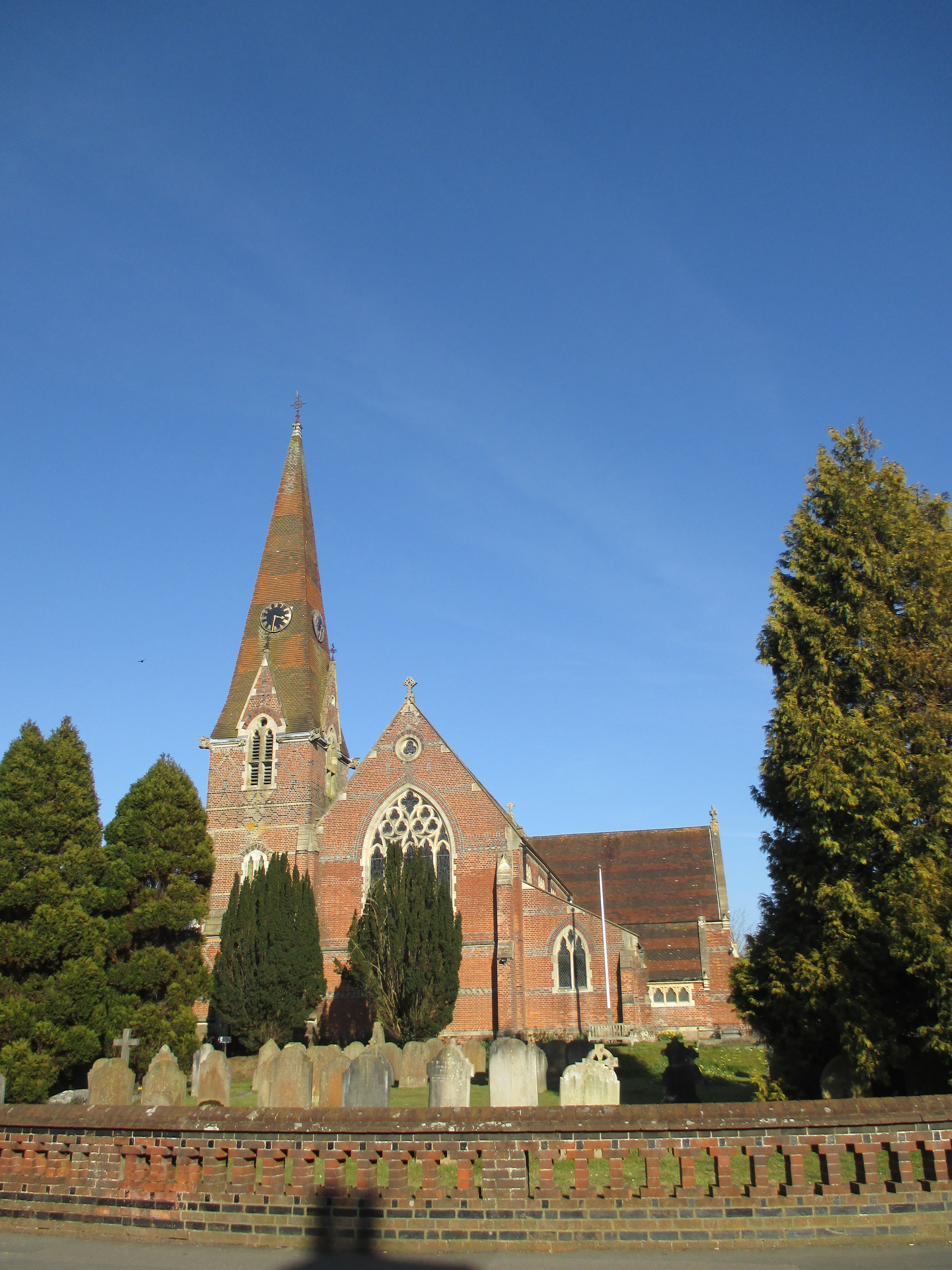 St. John the Evangelist's church, Burgess Hill, West Sussex, seen from the west.